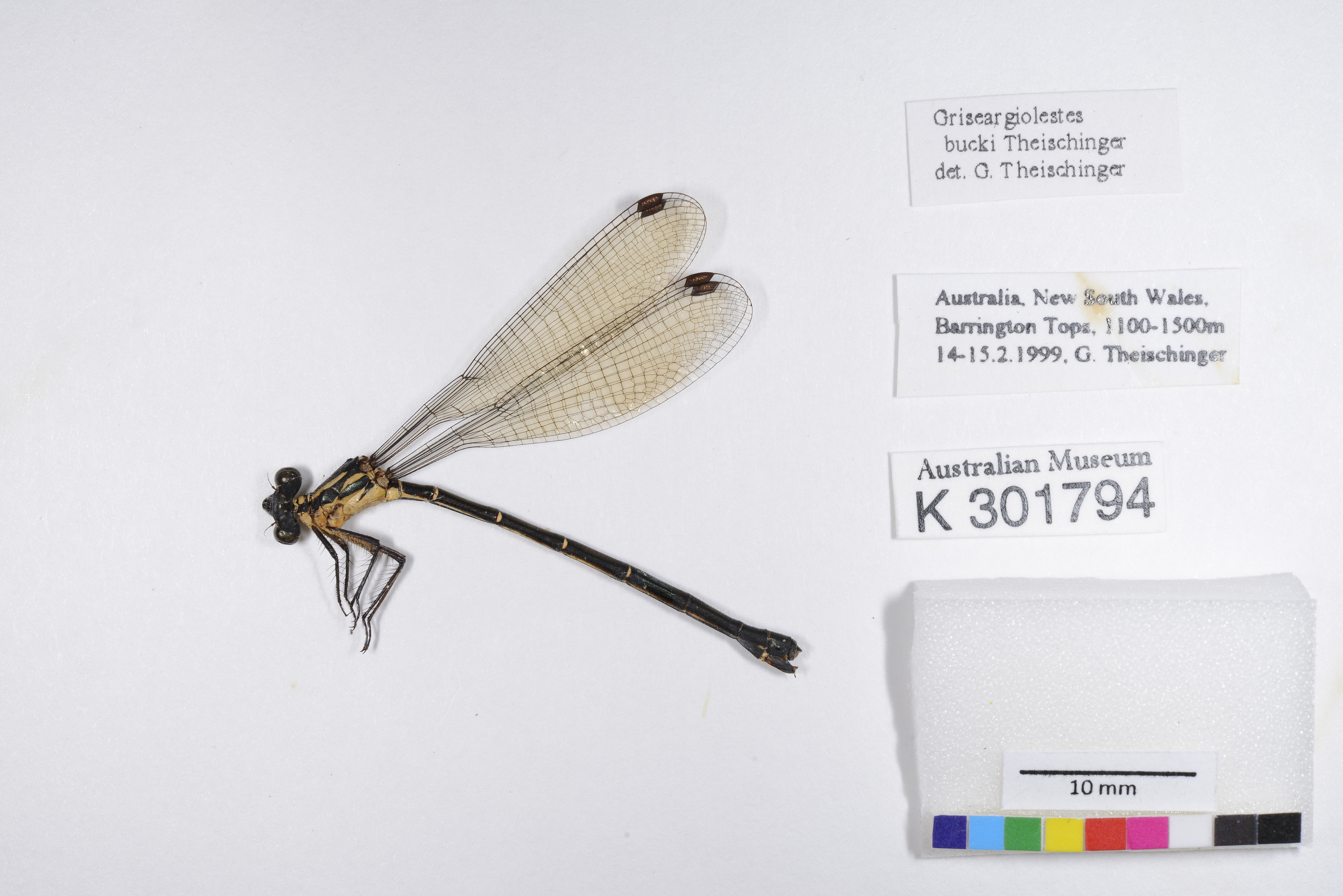 Female Turquoise Flatwing, Griseargiolestes bucki, family Megapodagrionidae. Australian Museum specimen K301794.